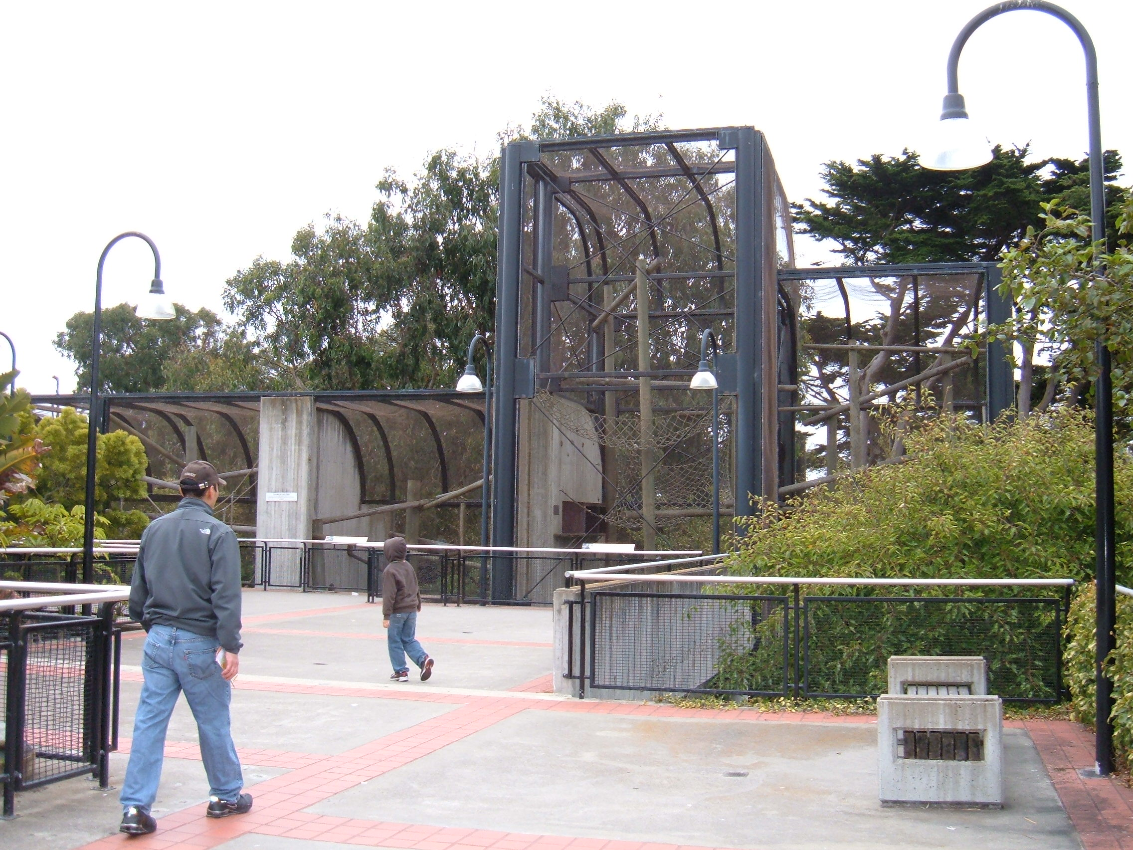 The second level of the Primate Discovery Center at the San Francisco Zoo.